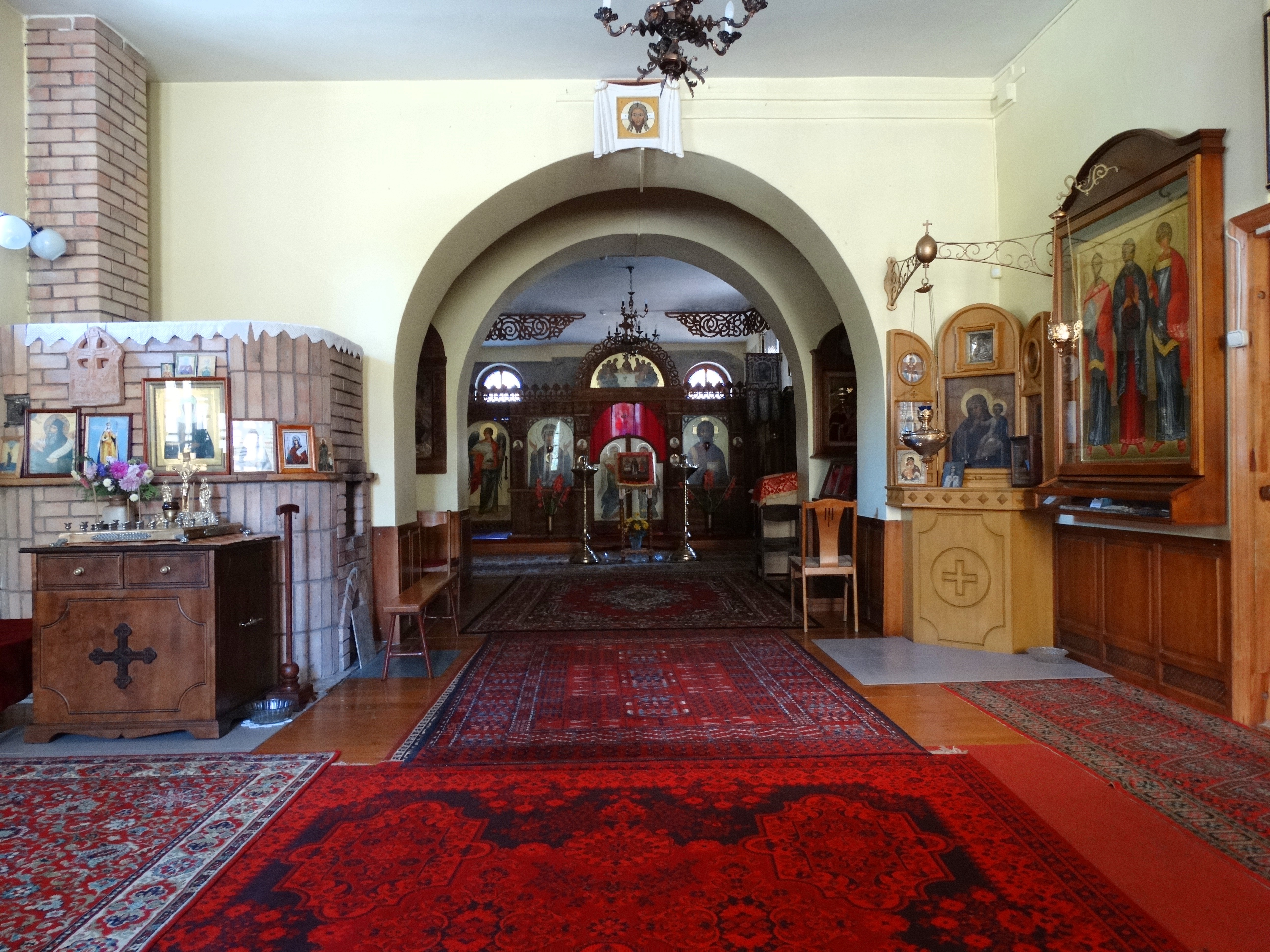 Interior, Orthodox Church of St. Martyr Panteleimon, Visaginas, Lithuania